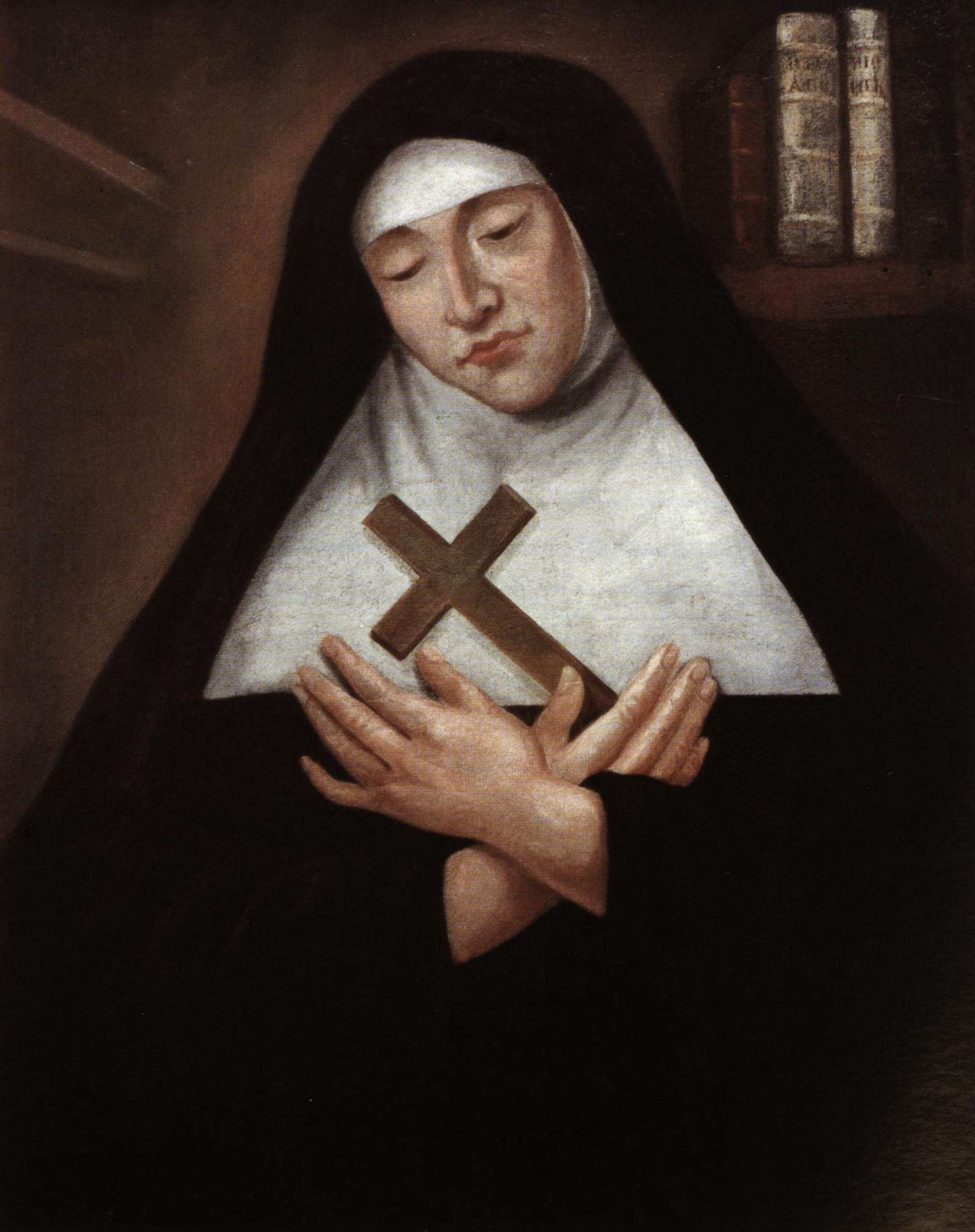 Portrait of Mother Mary of the Incarnation, attributed to Hugues Pommier, oil, 100.0 x 77.0 cm. In 1672. Archives of the Ursulines of Quebec.